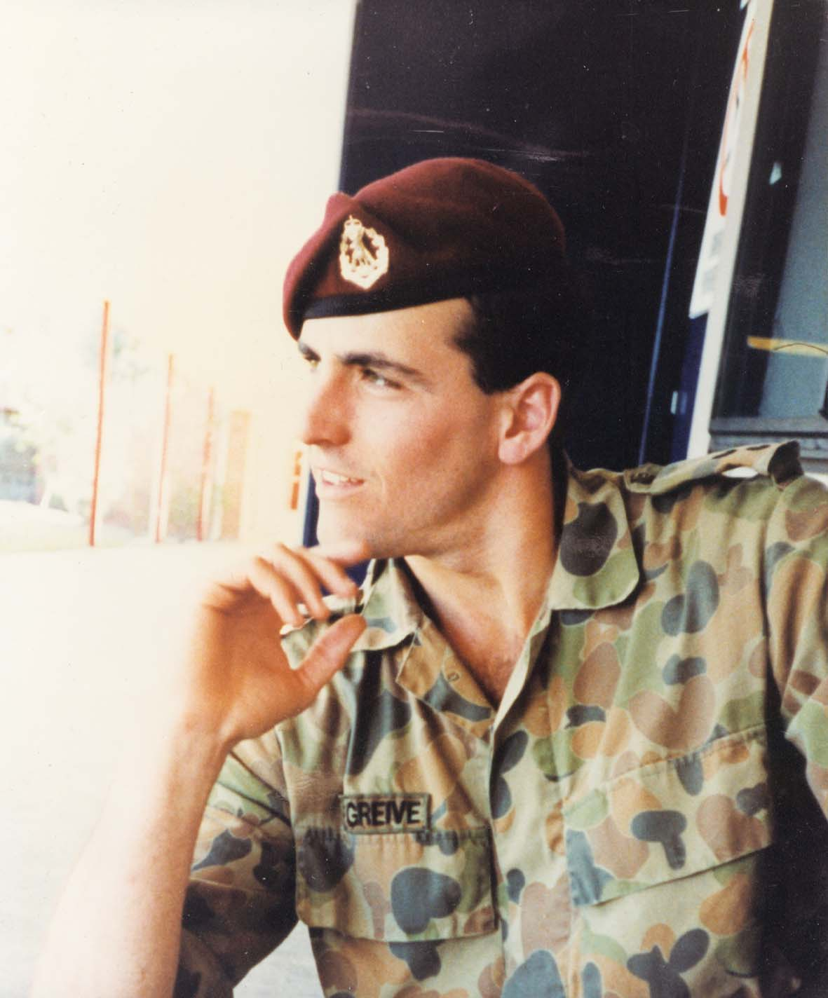 Bradley Trevor Greive in uniform during his time in the Australian paratroop regiment.